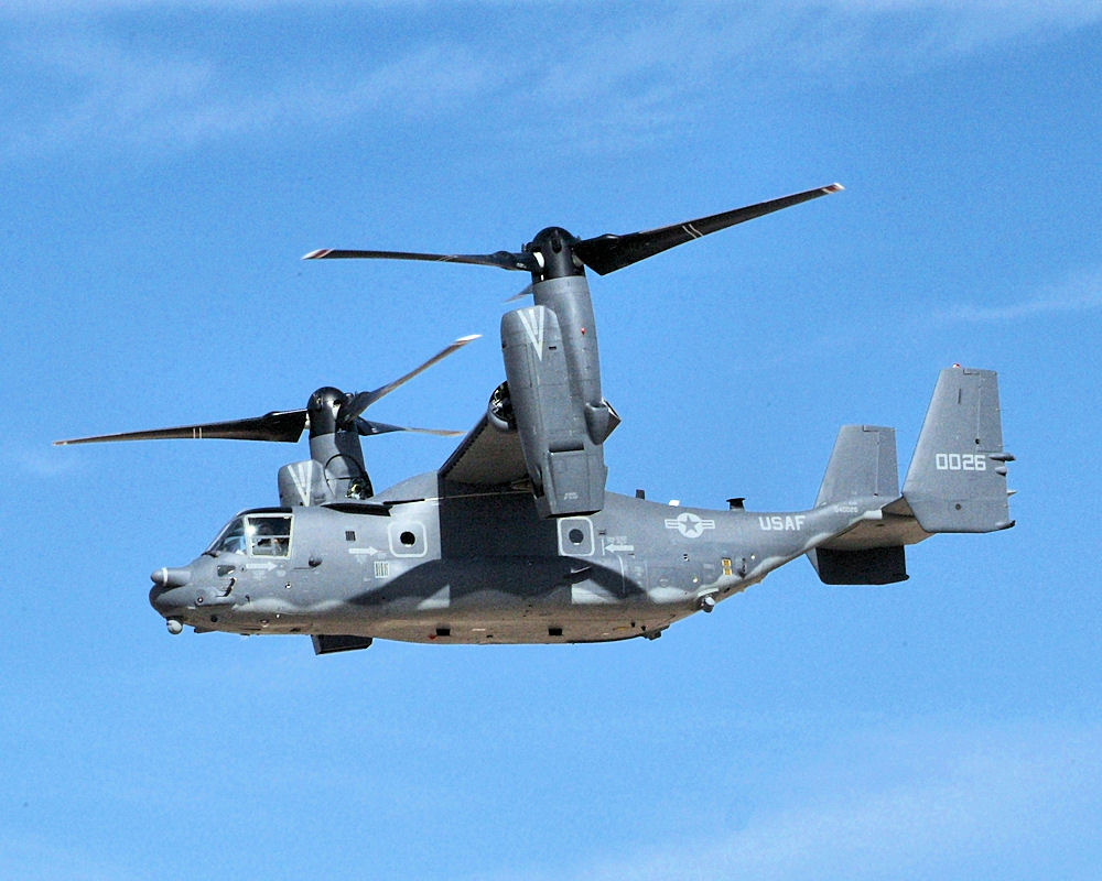 Air Force Special Operations Command's CV-22 Osprey flies a training at Kirtland Air Force Base, N.M. The aircraft will be flown by Airmen with the 58th Special Operations Wing. (Courtesy photo)